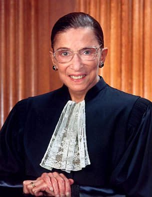 Official portrait of Justice Ruth Bader Ginsburg of the Supreme Court of the United States.